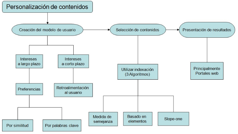 Personalización de contenidos web